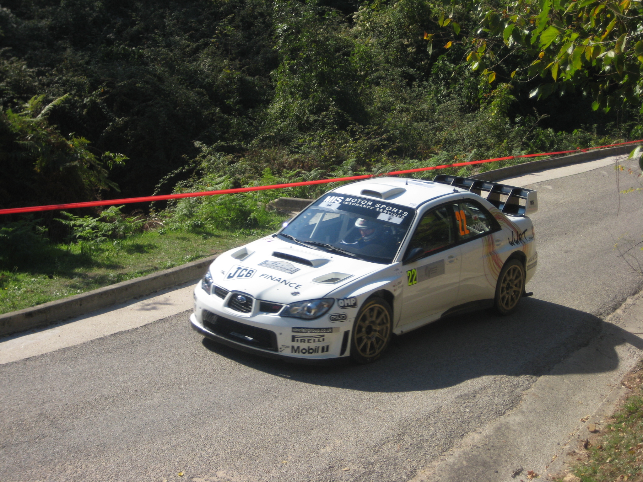 2008 Rallye de France, Day 2-SS10, Gareth Jones - Subaru Impreza WRC